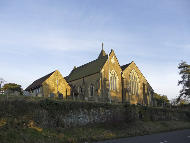 St Peter's Church, Limpsfield, Surrey. The Parish Church of St Peter, Limpsfield, is high above the High Street, and dates back to 1180.